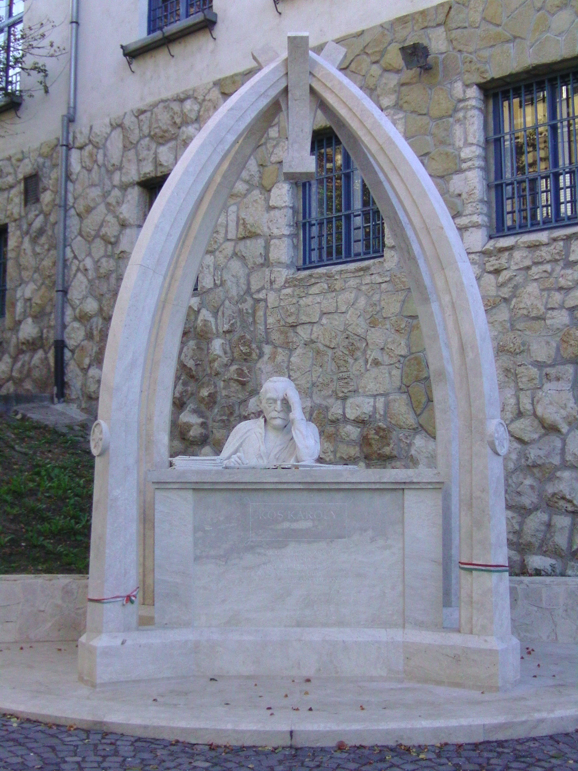 Károly Kós Monument - Budapest XII. District, Temes utca (Városmajor street off)